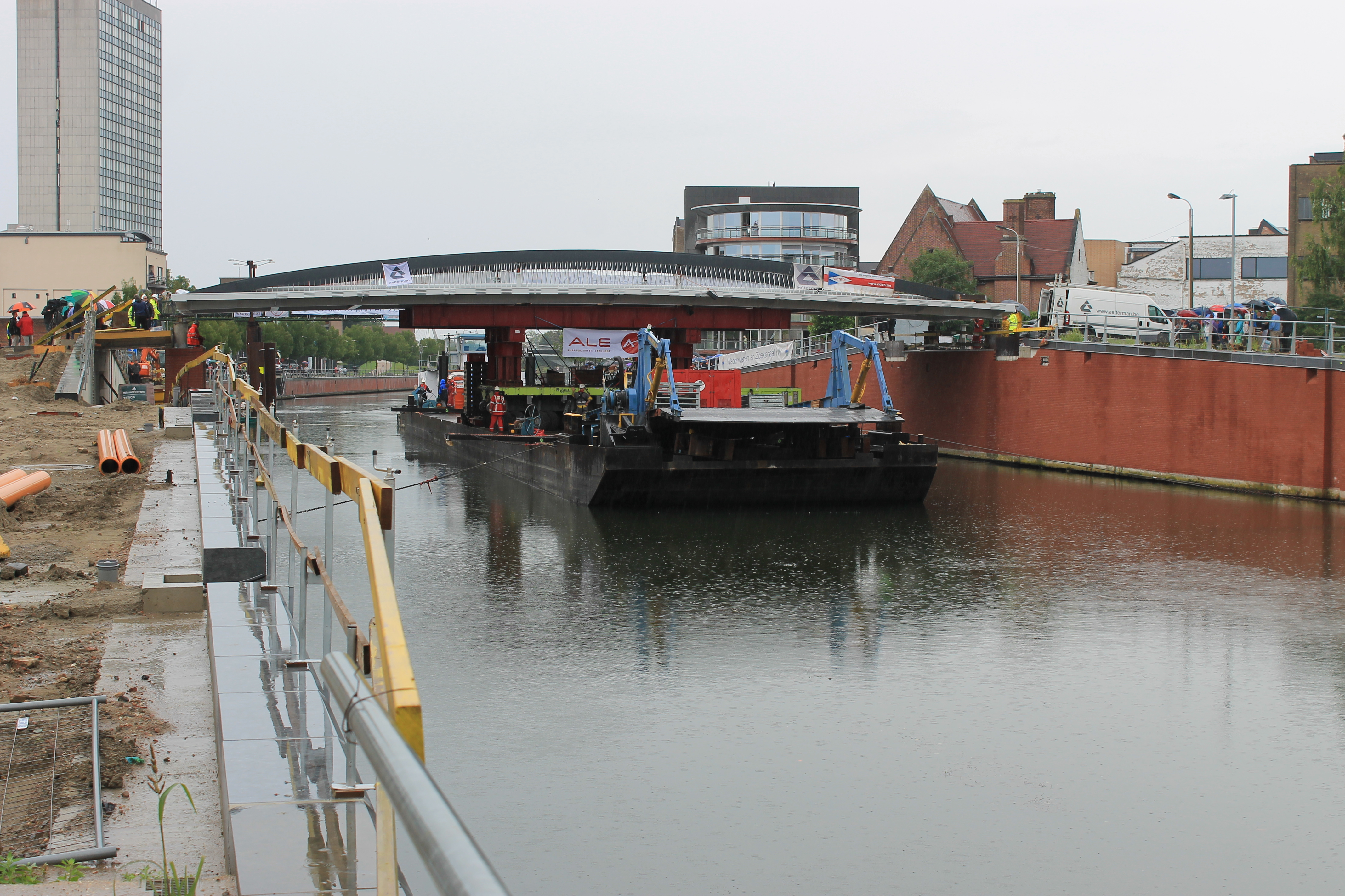 Installing the Buda table bridge on August 10, 2014